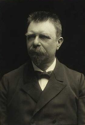 Søren Ludvig Tuxen (1850-1919), Copenhagen Denmark